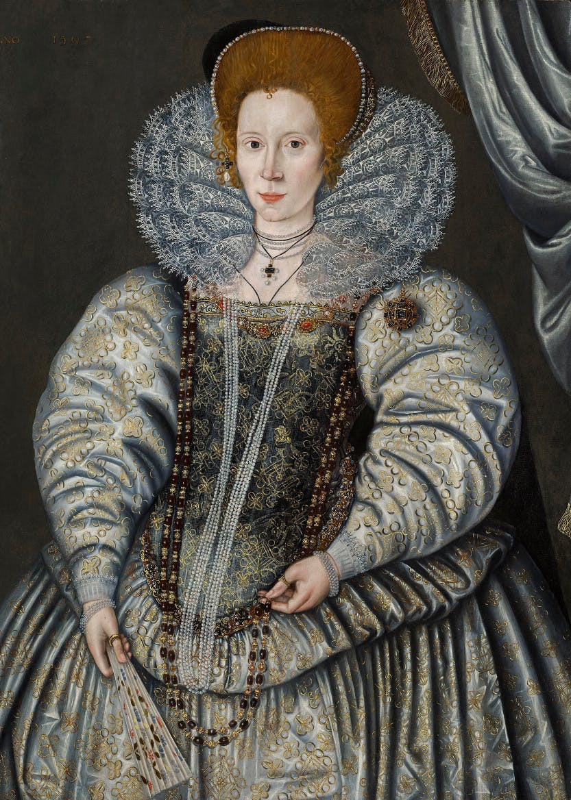 Portrait of Elizabeth "Bess" Trockmorton (1565 – c.1647), lady-in-waiting to Elizabeth I of England and wife of Sir Walter Raleigh, 1595.